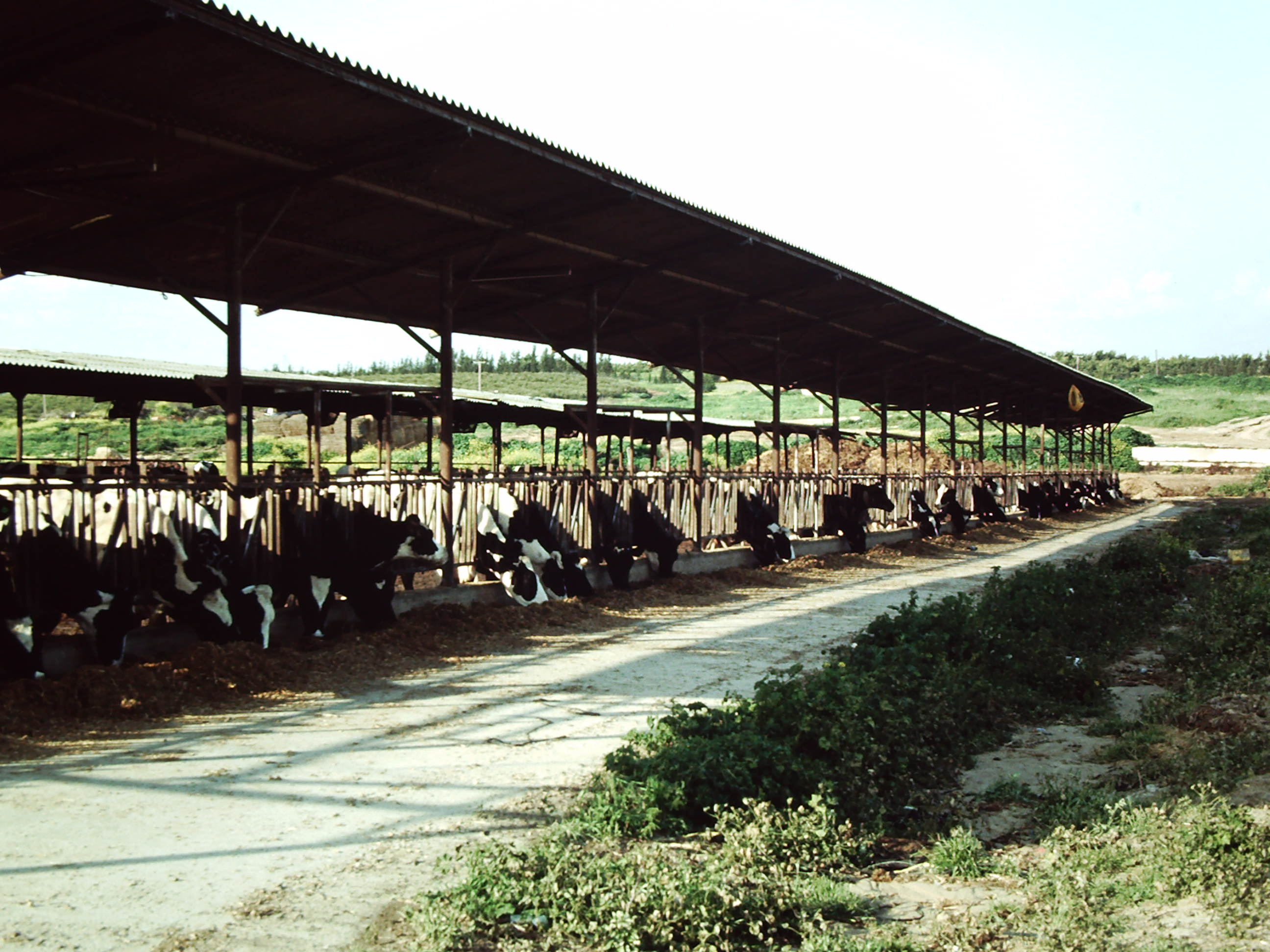 Bror Hayil